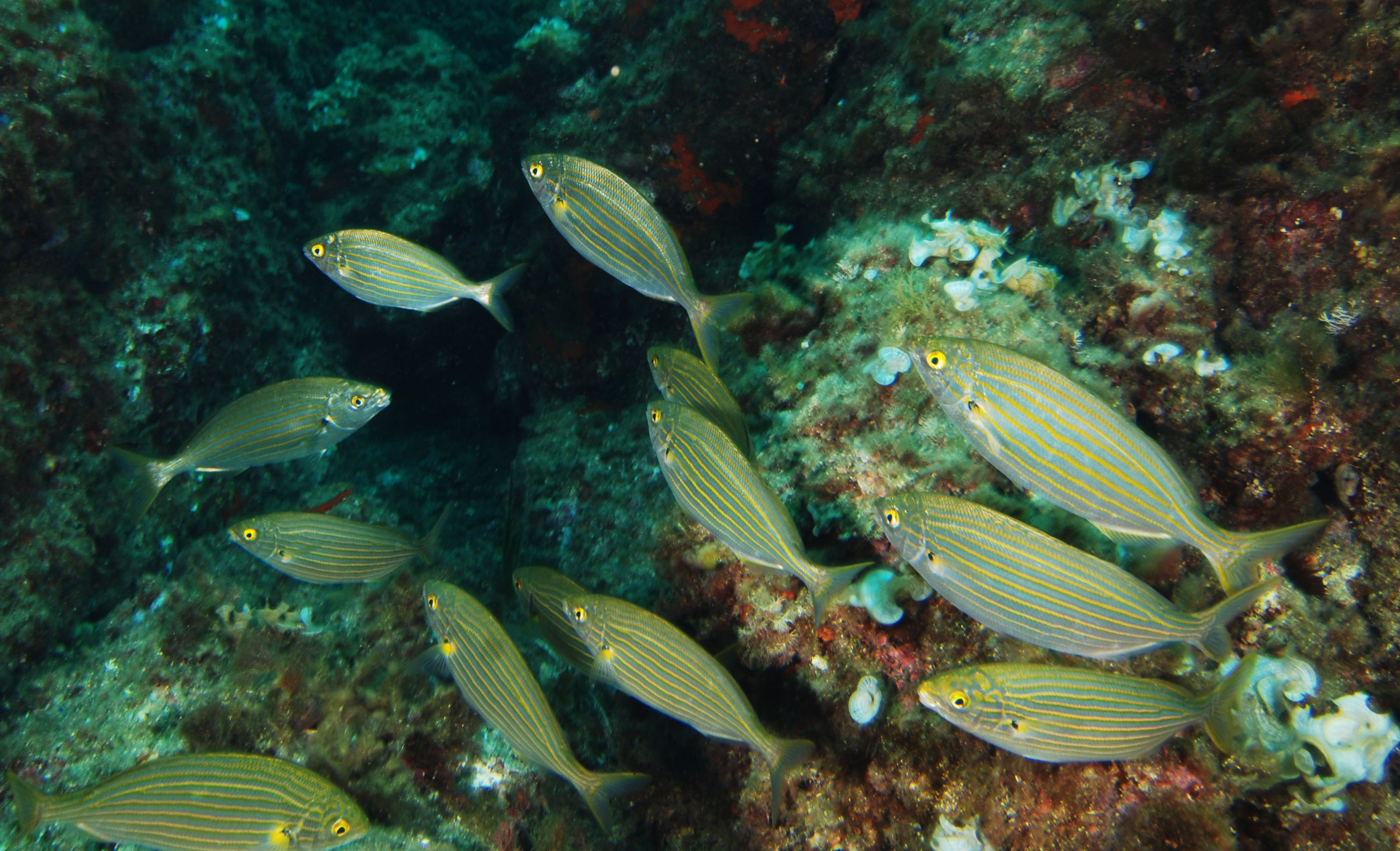 Sarpa salpa